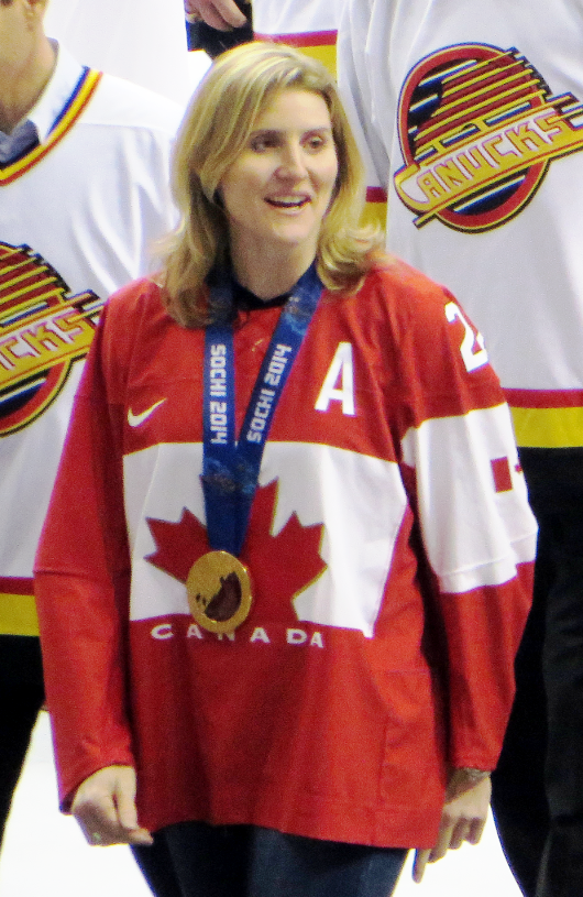 Canadian Women's National Team alternate captain Hayley Wickenheiser during pre-game ceremonies at the 2014 Heritage Classic in Vancouver.